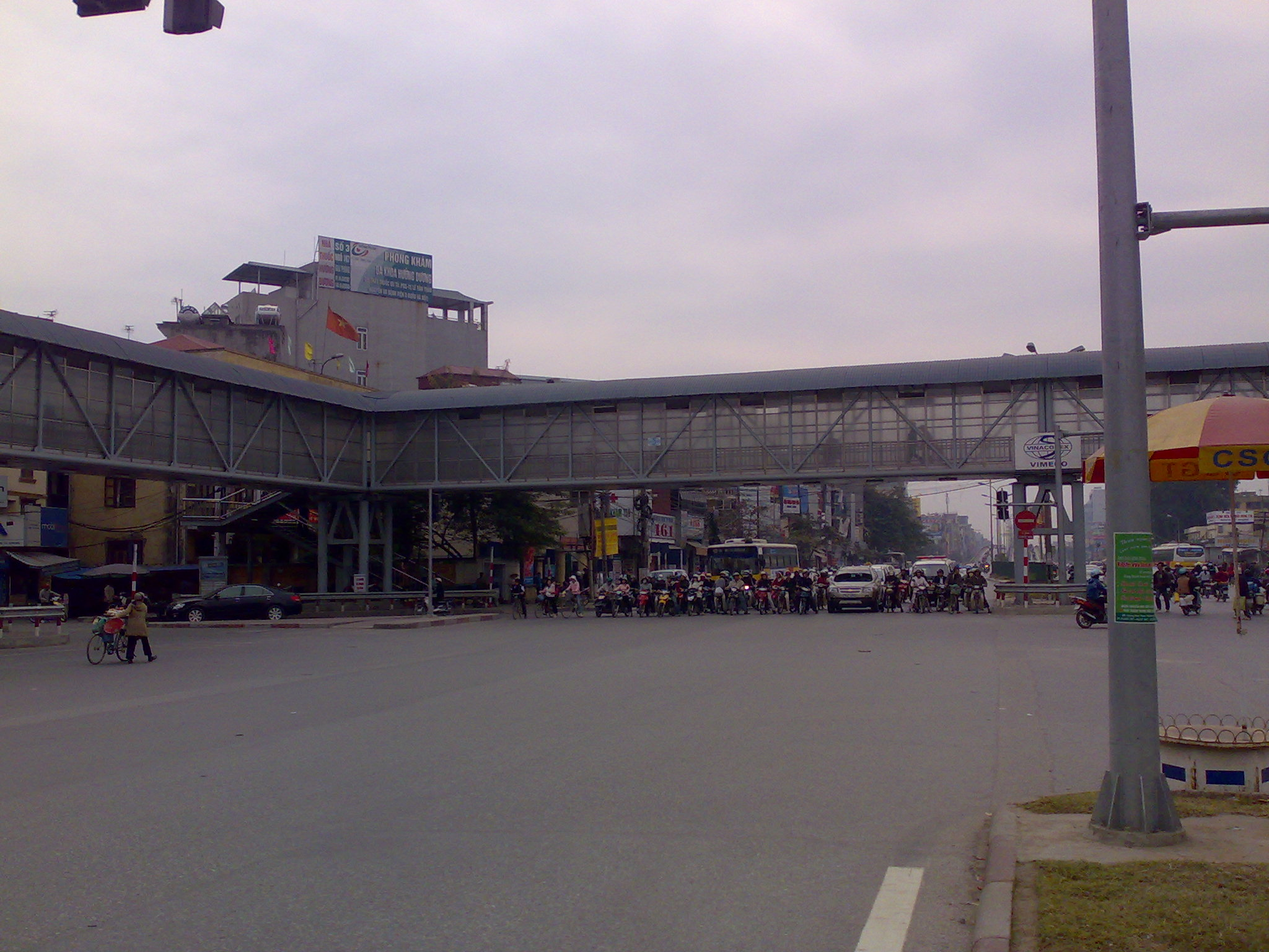 Overpass bridge in Giai Phong road, Ha Noi